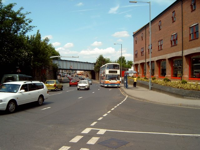 London Road South in Heeley, Sheffield, England, in Summer 2003. Ponsford furnitures is to the right.